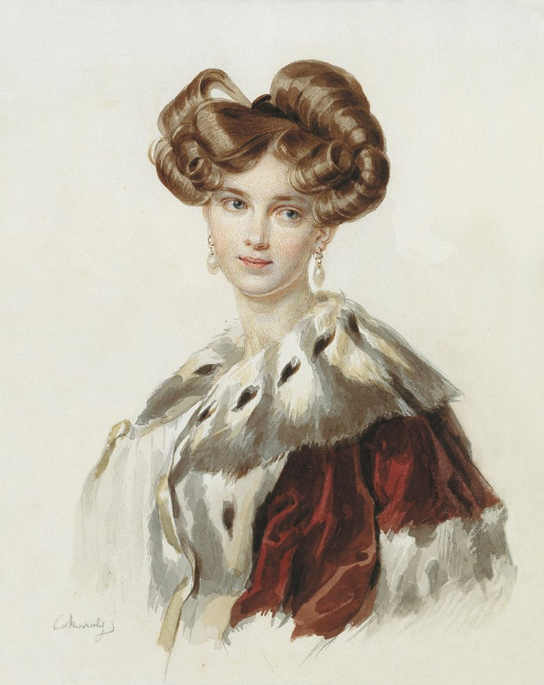 Idalia_Poletica